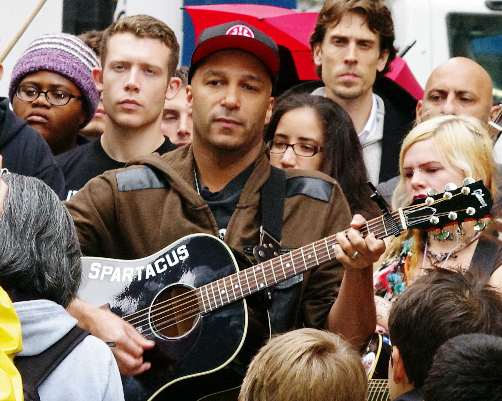 Rage Against the Machine guitarist Tom Morello playing a set on Day 28 of Occupy Wall Street in New York.